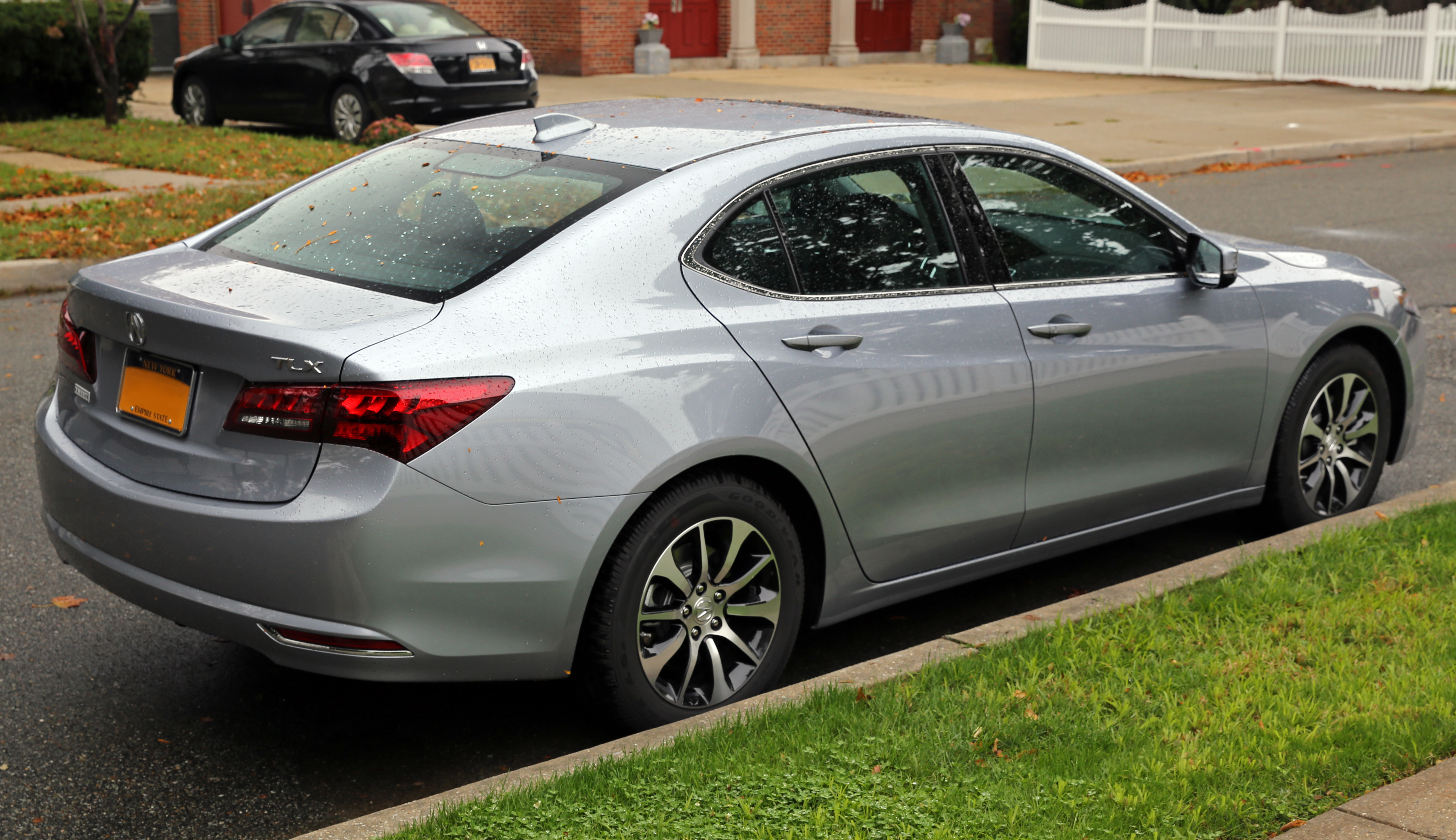 A 2015 Acura TLX, with the 2.4 liter inline-four coupled to an eight-speed dual-clutch transmission (DCT) and front-wheel drive.